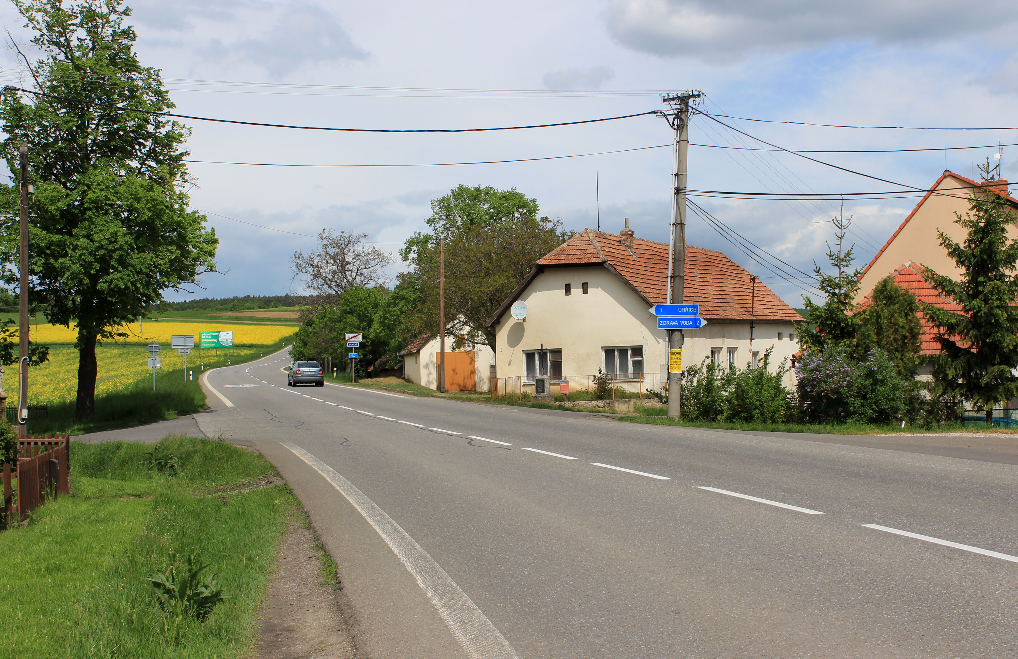 Road No. 54 in Silničná, part of Žarošice, Czech Republic.